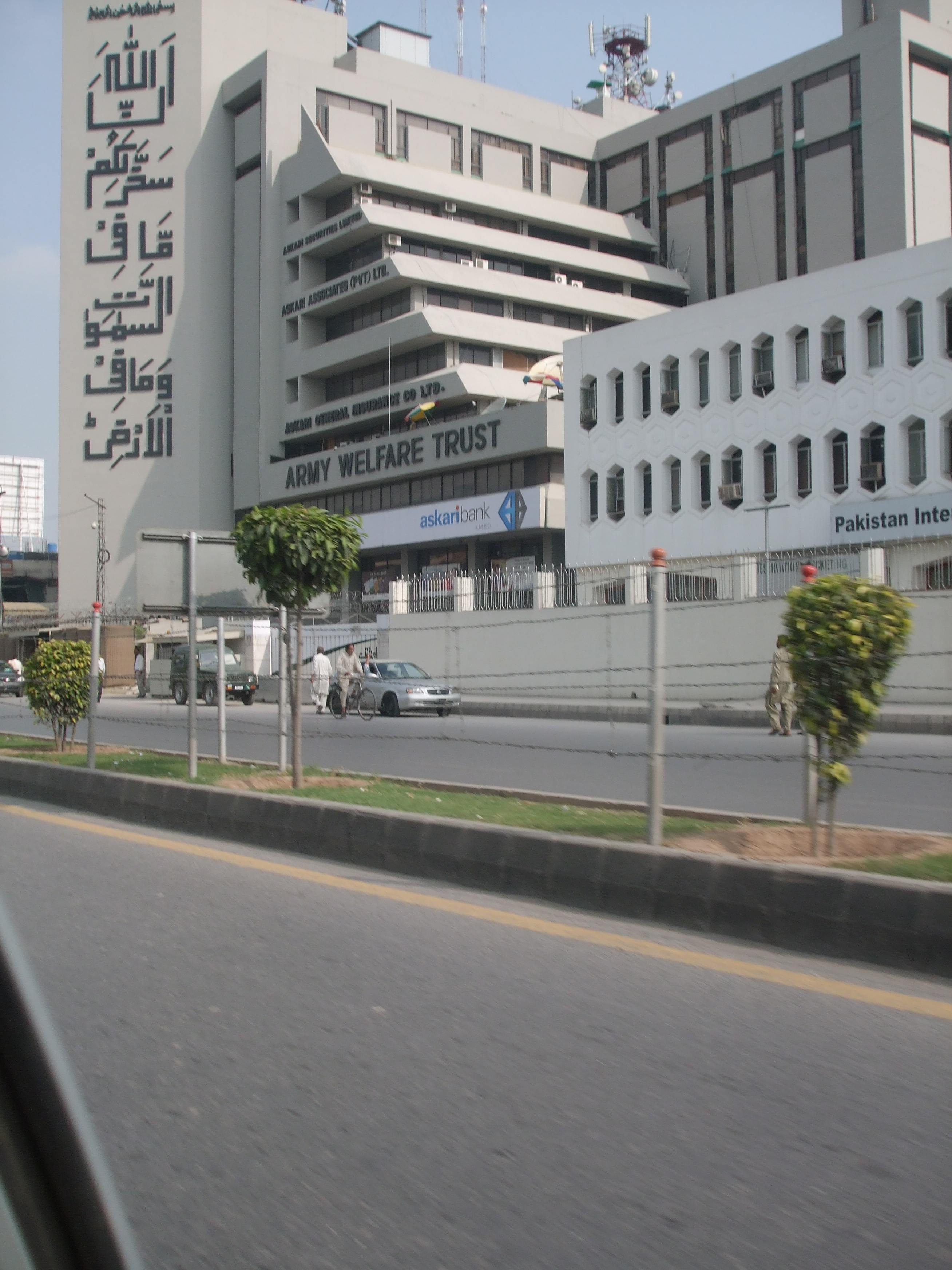 Army Welfare Trust, Rawalpindi, Pakistan